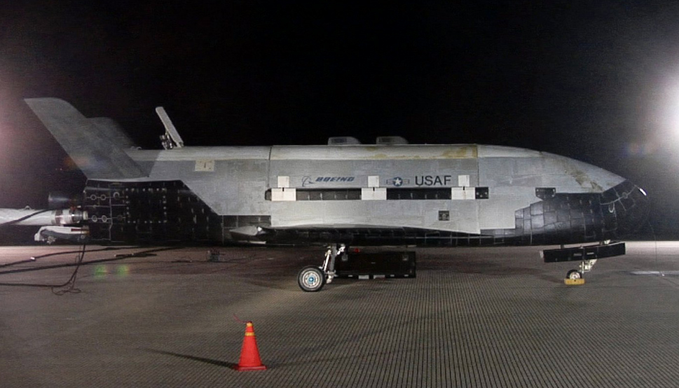 The X-37B sits on the Vandenberg Air Force Base runway during post-landing operations Dec. 3. The X-37B, named Orbital Test Vehicle 1 (OTV-1), conducted on-orbit experiments for more than 220 days during its maiden voyage. It fired its orbital maneuver engine in low-earth orbit to perform an autonomous reentry before landing.